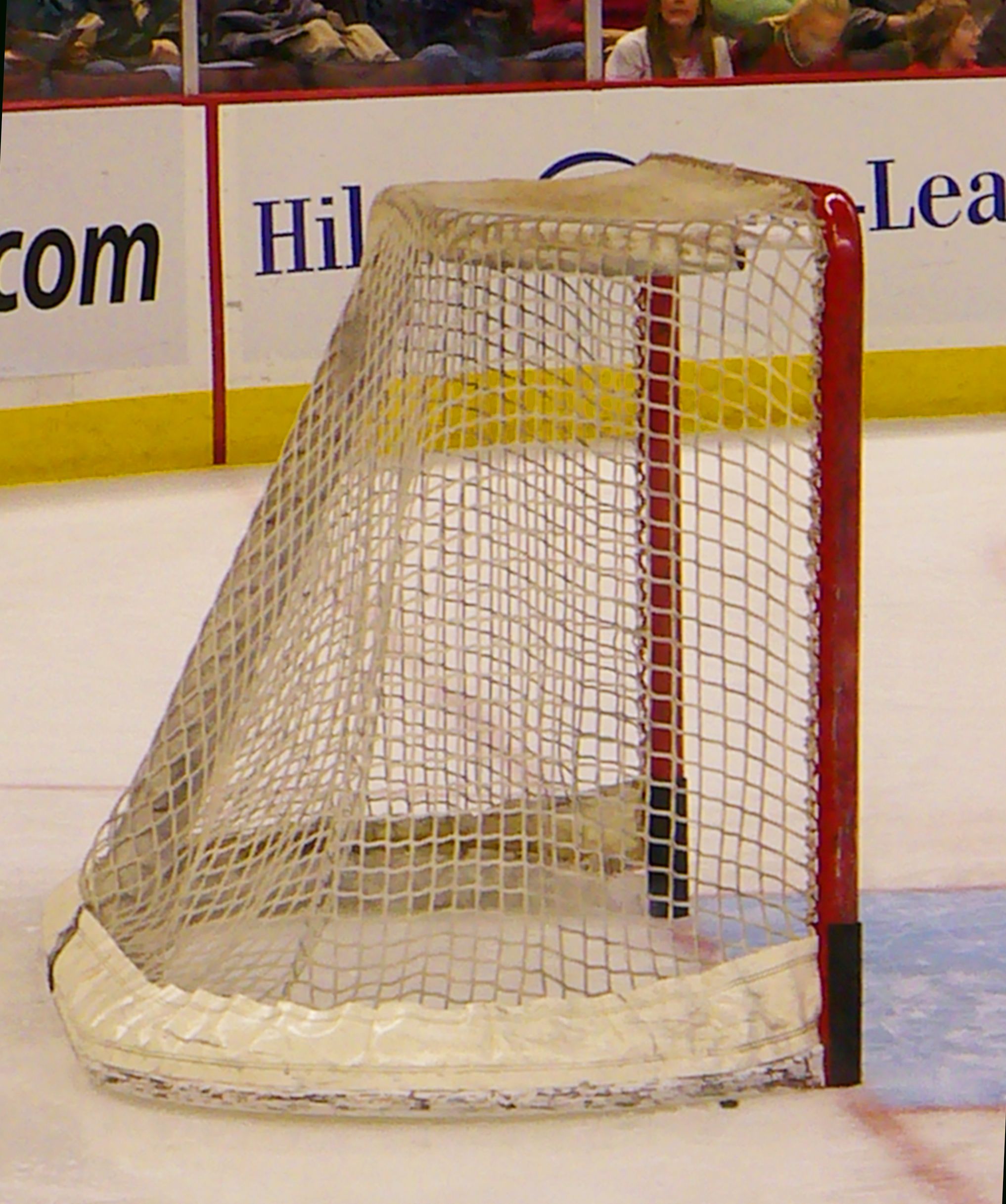 Empty Net